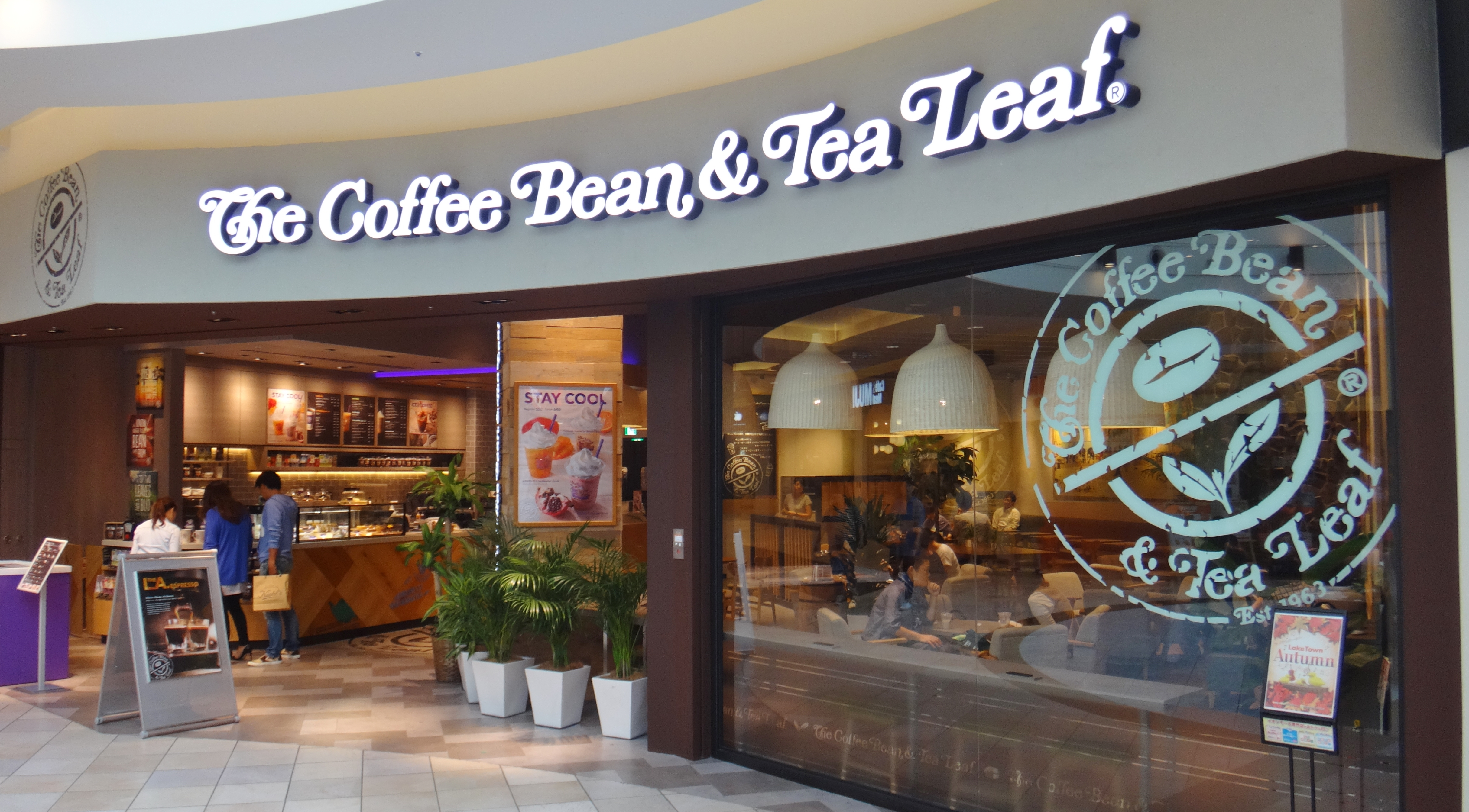 The Coffee Bean & Tea Leaf cafe in the "Kaze" zone of the Aeon LakeTown shopping mall in Koshigaya, Saitama Prefecture, Japan